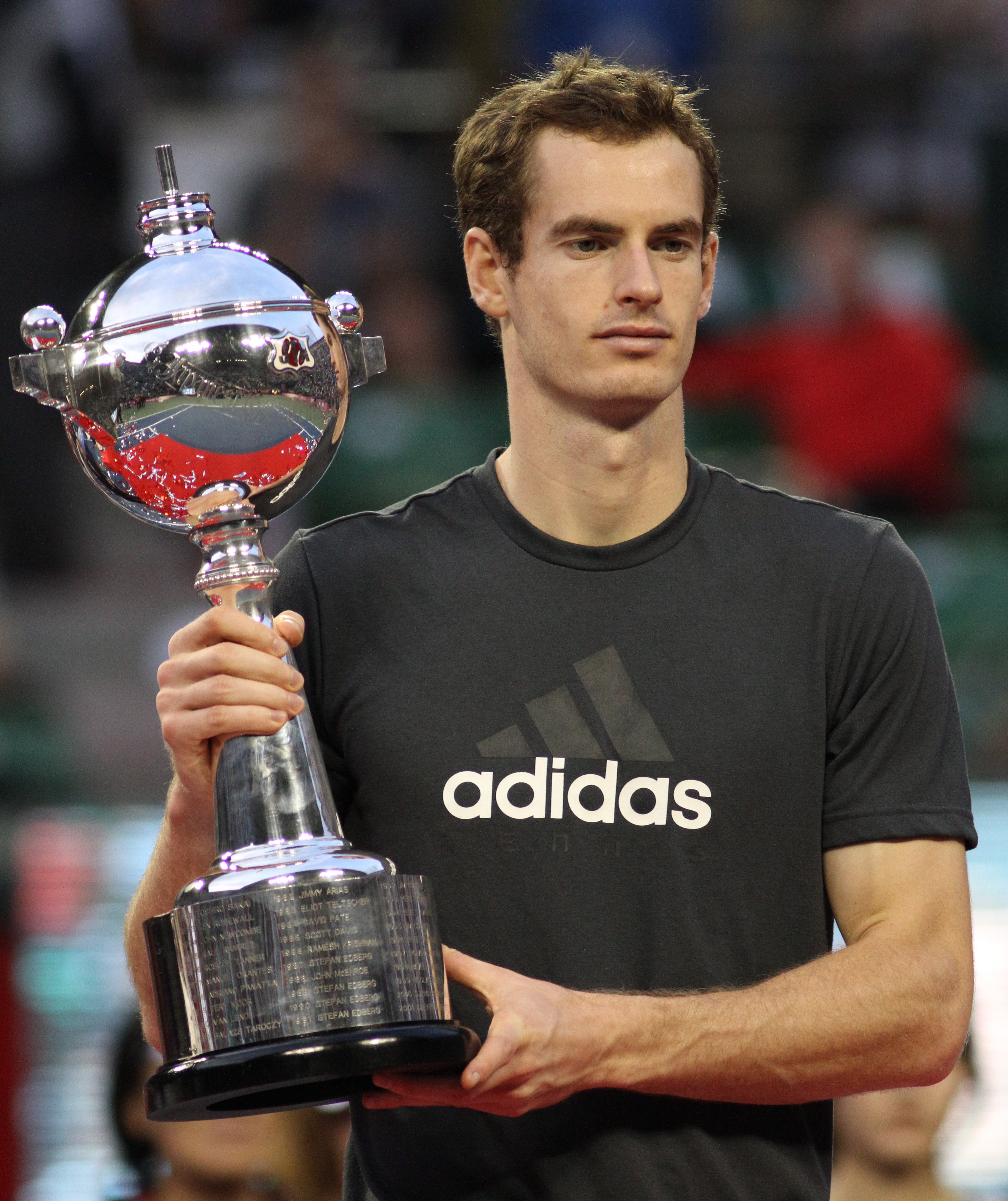 Andy Murray with the trophy at the 2011 Japan Open in Tokyo.